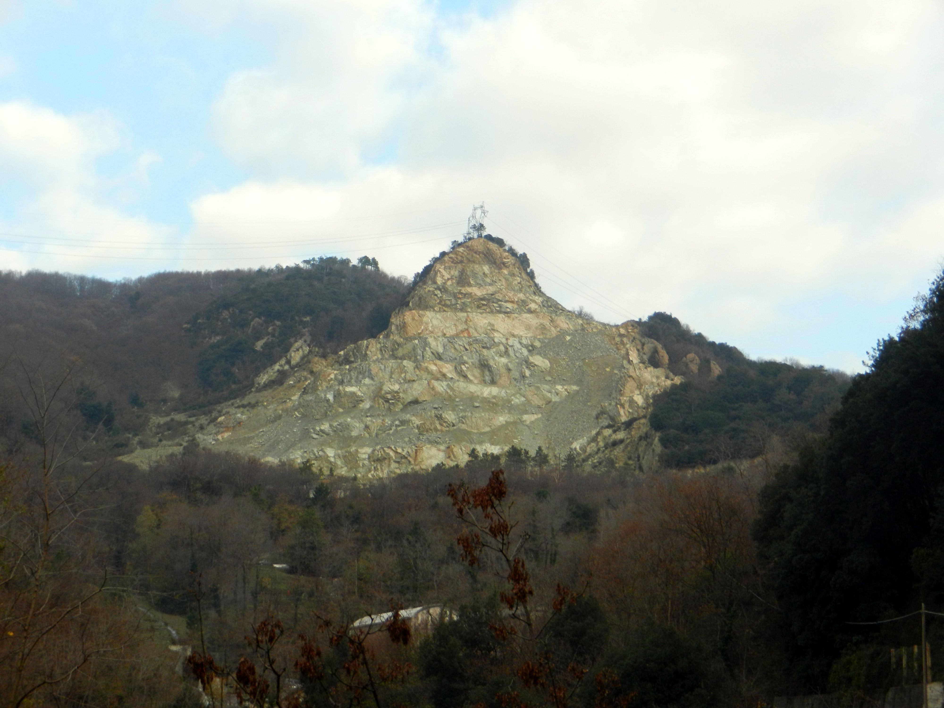 Genoa, Italy, quarter of Pegli, a quarry near Carpenara, Val Varenna